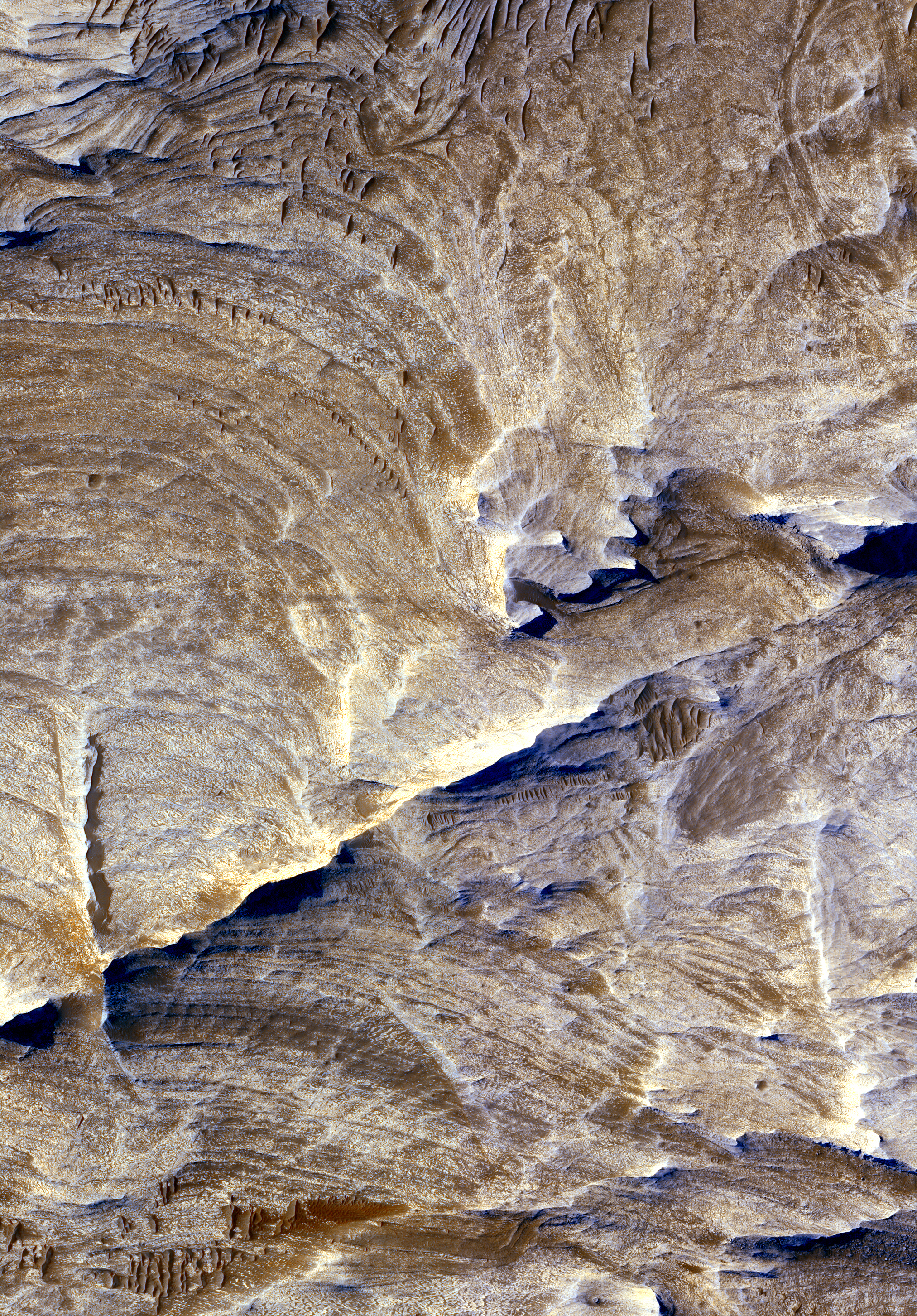 Ridges as Evidence of Fluid Alteration: Tectonic fractures within the Candor Chasma region of Valles Marineris, Mars, retain ridge-like shapes as the surrounding bedrock erodes away. This points to past episodes of fluid alteration along the fractures and reveals clues into past fluid flow and geochemical conditions below the surface. The High Resolution Imaging Science Experiment camera on NASA's Mars Reconnaissance Orbiter took this image on Dec. 2, 2006. The image is approximately 1 kilometer (0.6 mile) across. Illumination from the upper left. This view is a portion of the camera's image catalogued as PSP_001641_1735.